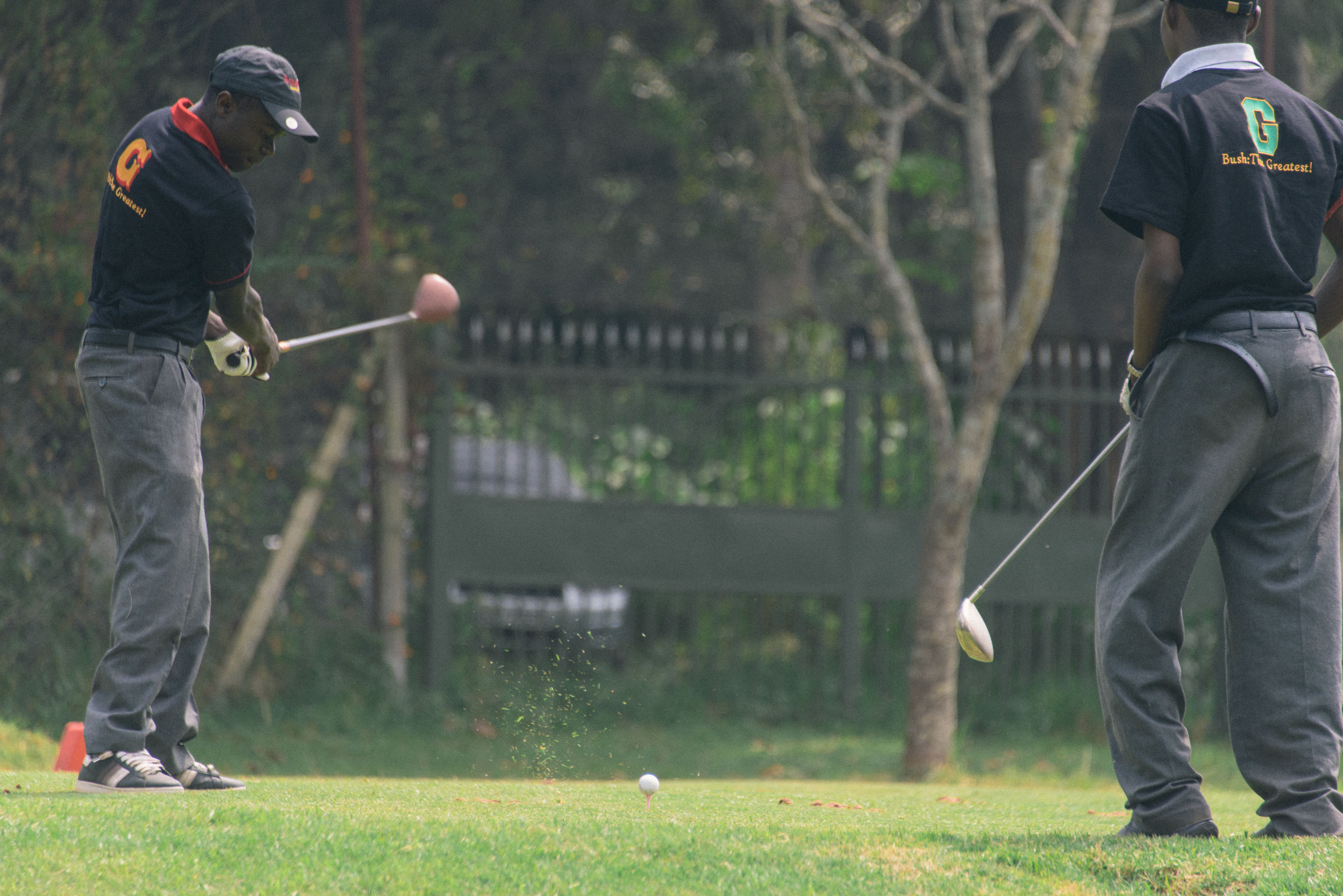 Students playing gold at the Muthaiga Golf Club